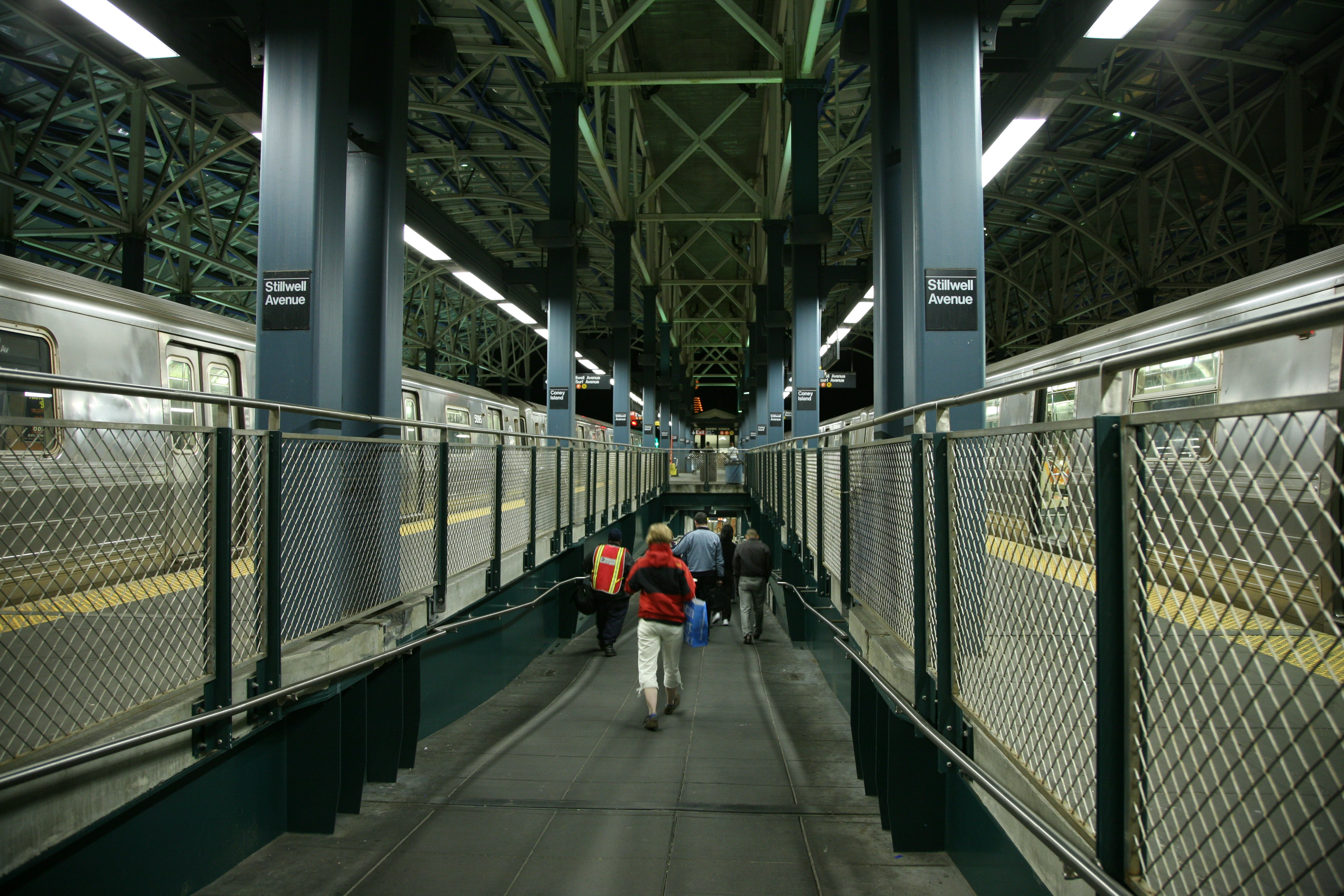 Coney Island - Stillwell station, New York City